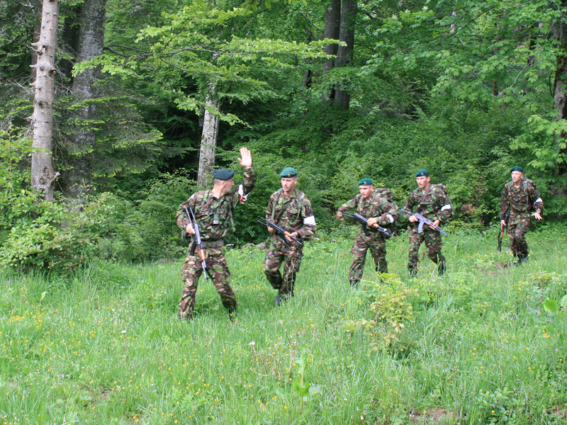 Romanian Mountain Troops (Vânători de Munte) from the 2nd and 61st Mountain Troops Brigade during a military competition (Army scouts contest).